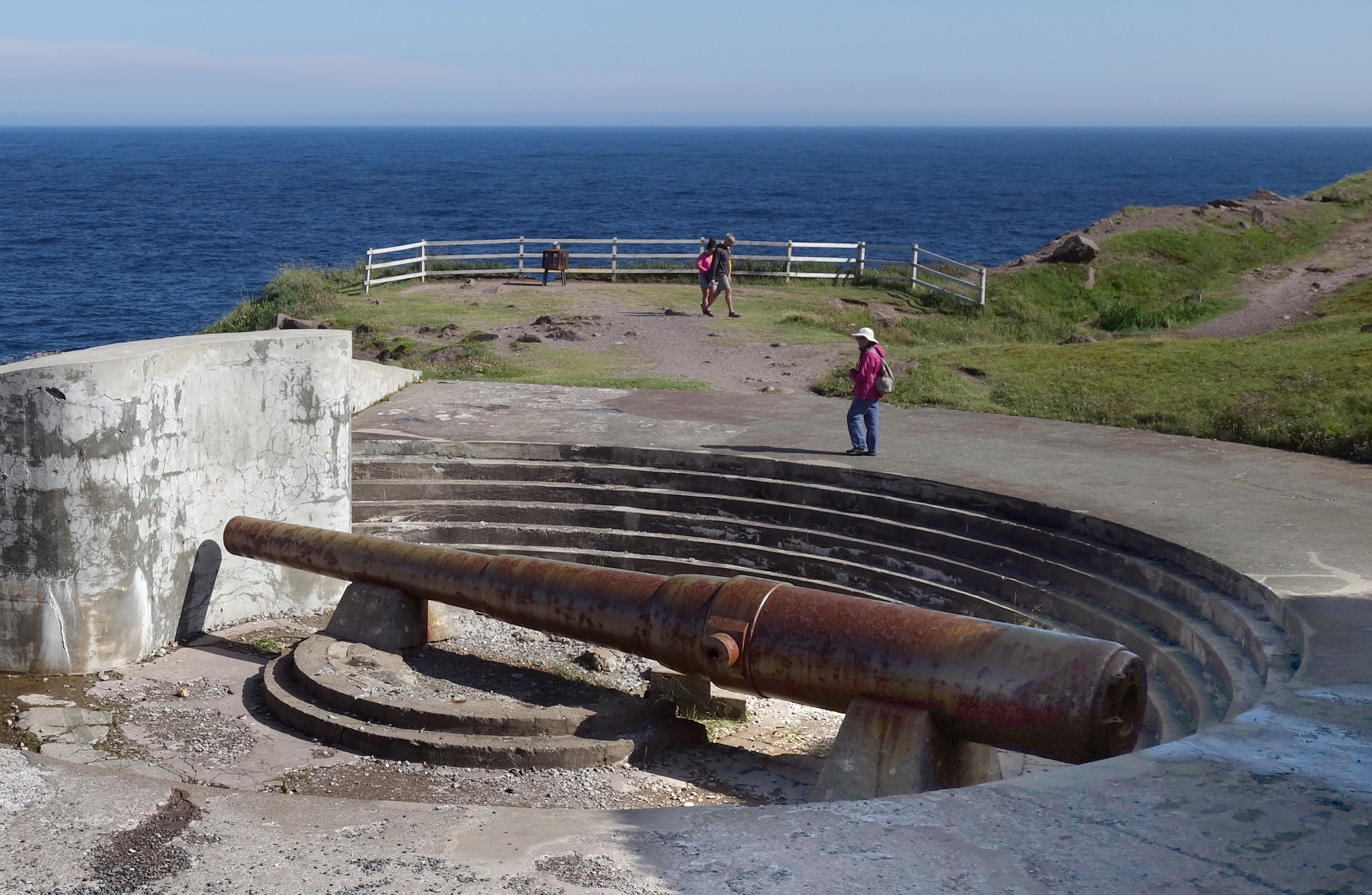 World War II 10-in gun battery Cape Spear, Newfoundland, August 2016